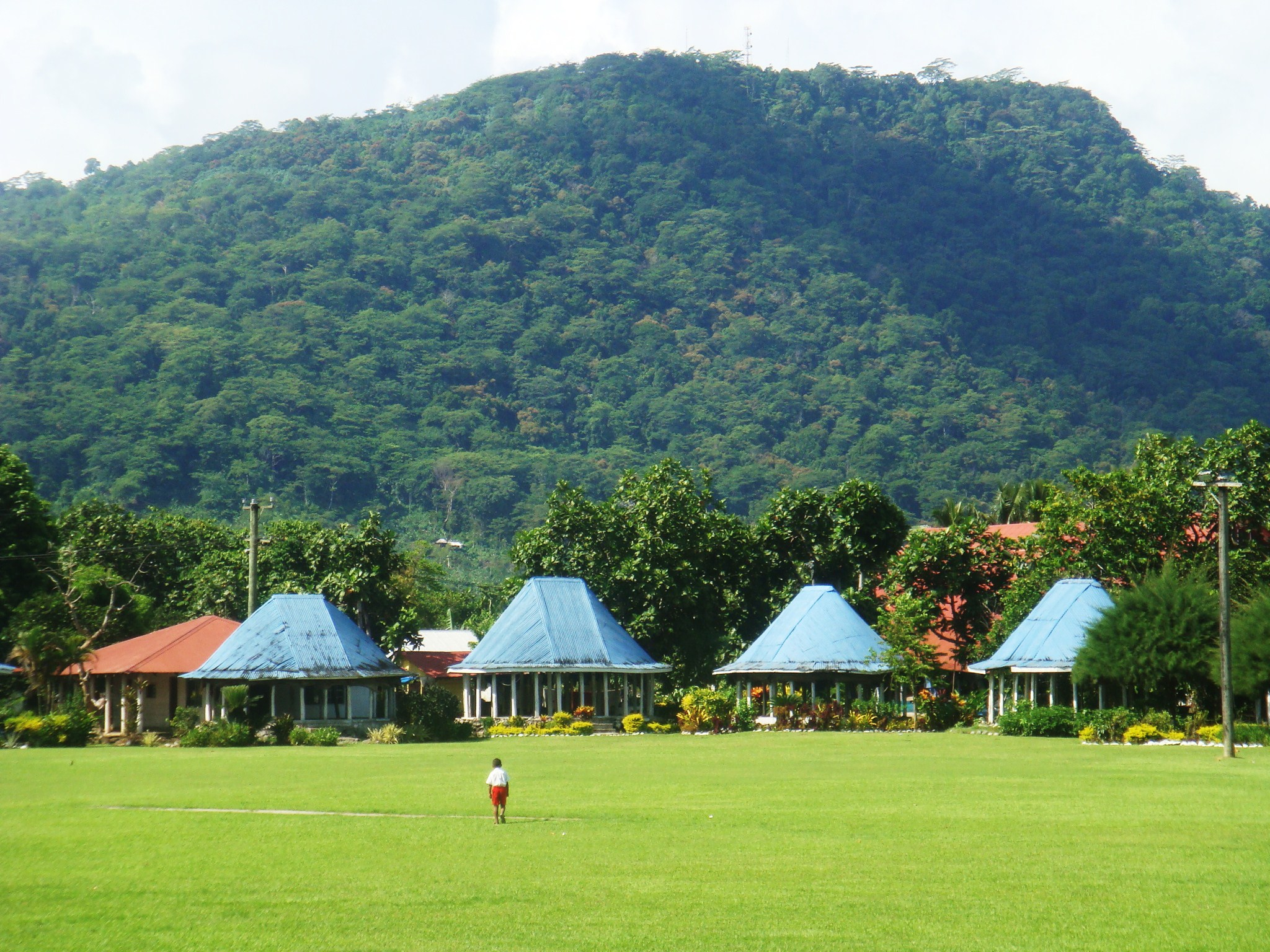 View of Mount Vaea, burial place of Robert Louis Stevenson, from Lepea village, Upolu Island, Samoa. Gagana Samoa: Le va'ai atu i le mauga o Vaea mai le nu'u o Lepea.